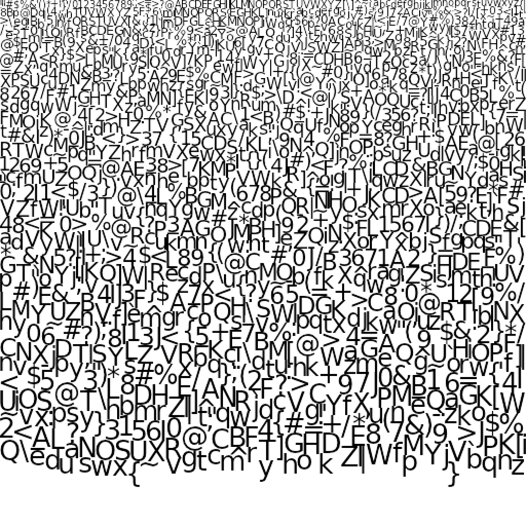 Example of a texture atlas containing glyphs